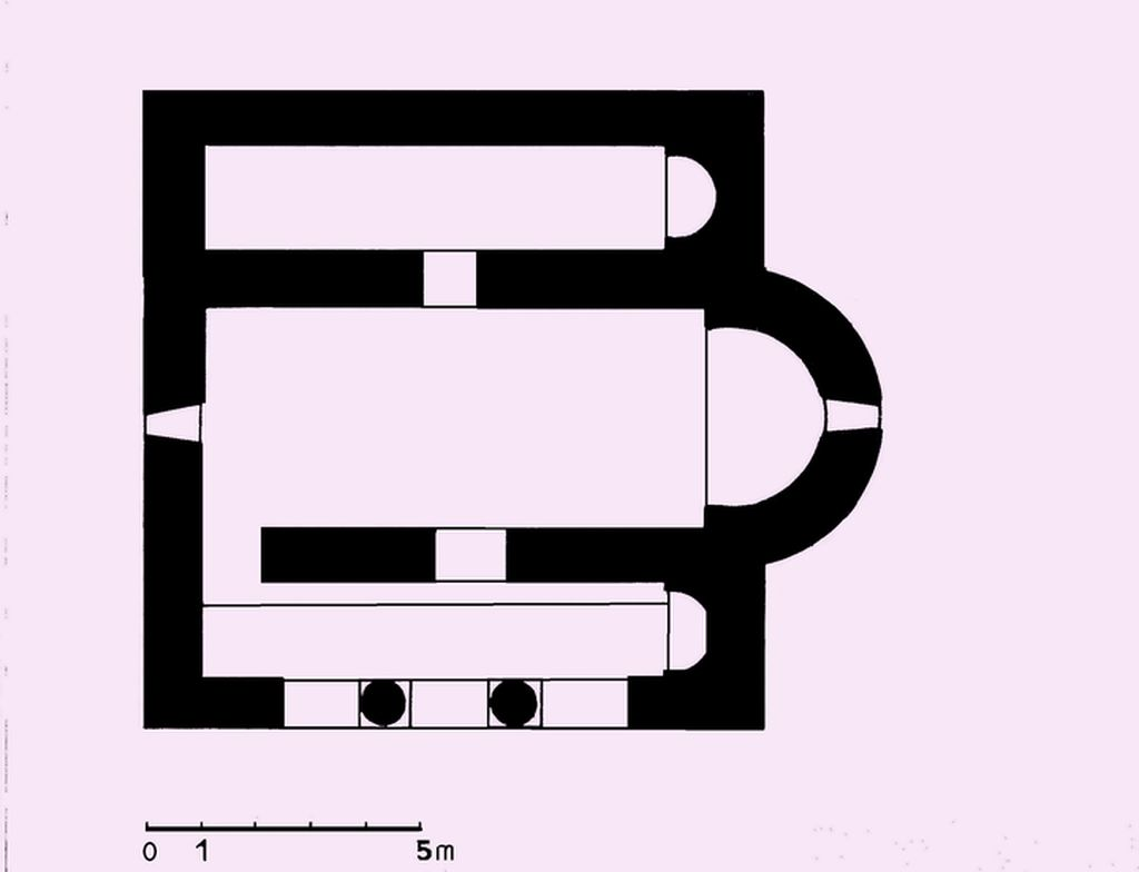 Kvemo Bolnisi, three church basilica, 6th century, from Mepisaschwili, Zinzadse: Die Kunst des alten Georgien. 1977, p. 76